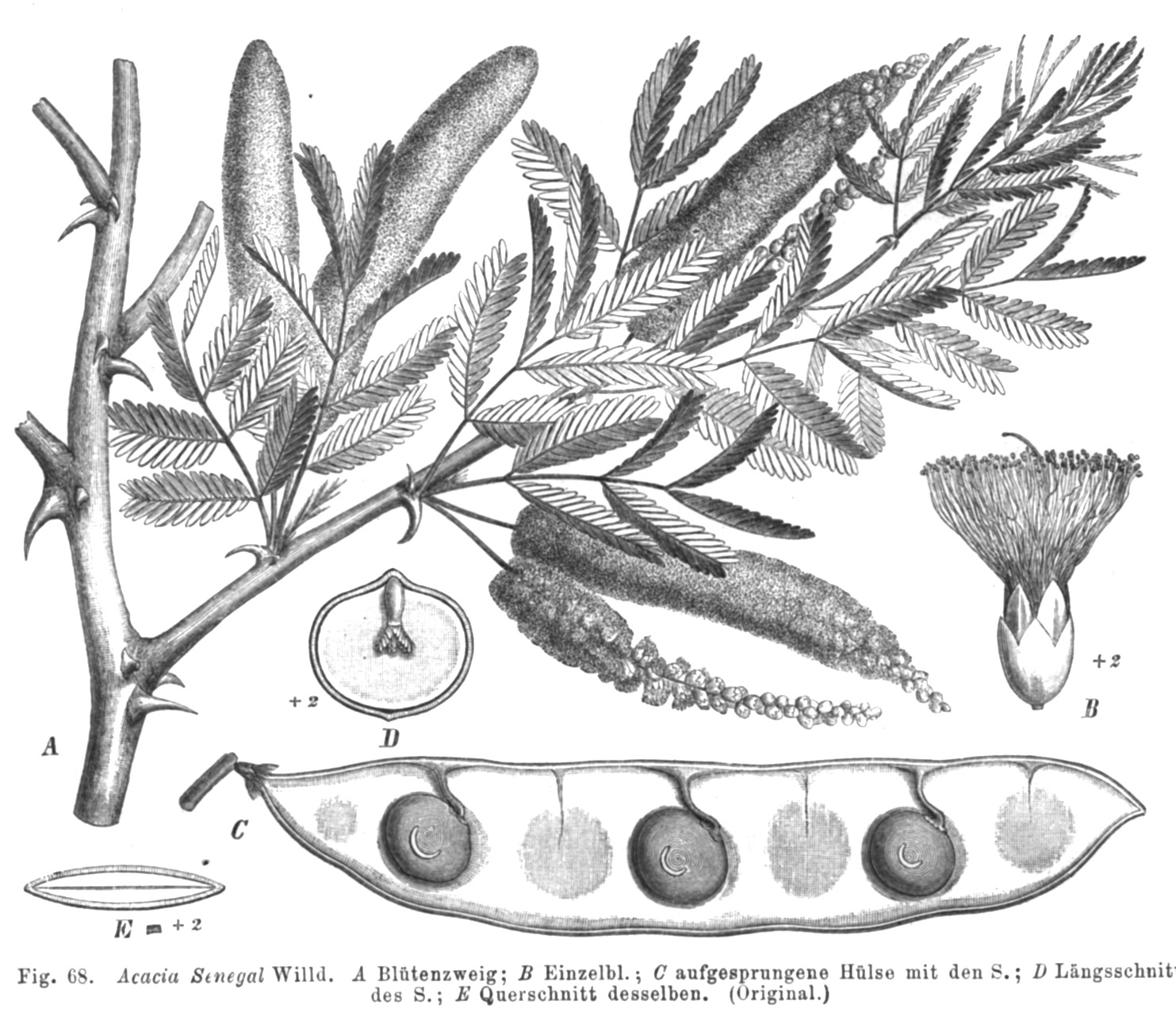 Illustration from book